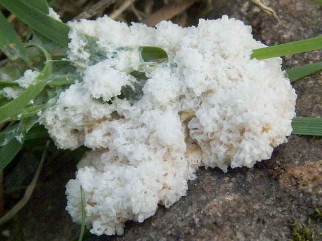 A slime mould - Mucilago crustacea This specimen was about 4cm wide, and encrusted onto blades of grass; it was found beside the footpath that is shown on the map, and can be seen to be a convoluted mass of tubules. This is the third of a series of four images showing different stages of the slime mould's development. See the other stages for more information. Previous stage: Next stage